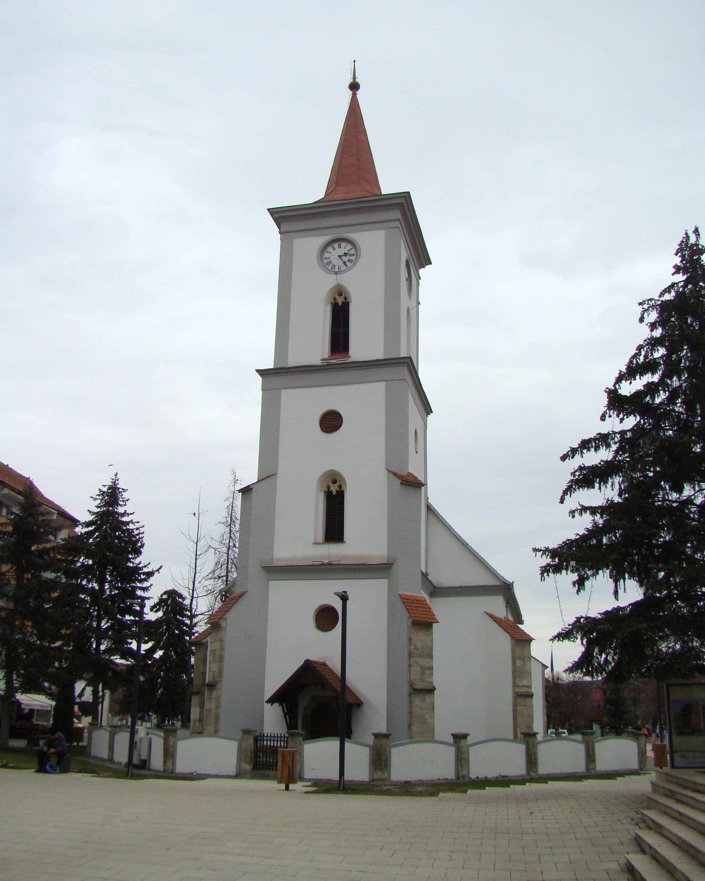 Reformed church in Beclean, Bistrița-Năsăud county, Romania